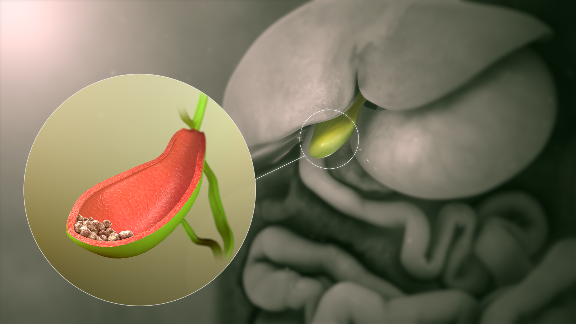 3D medical animation still showing Gallbladder stones or Gallstones.